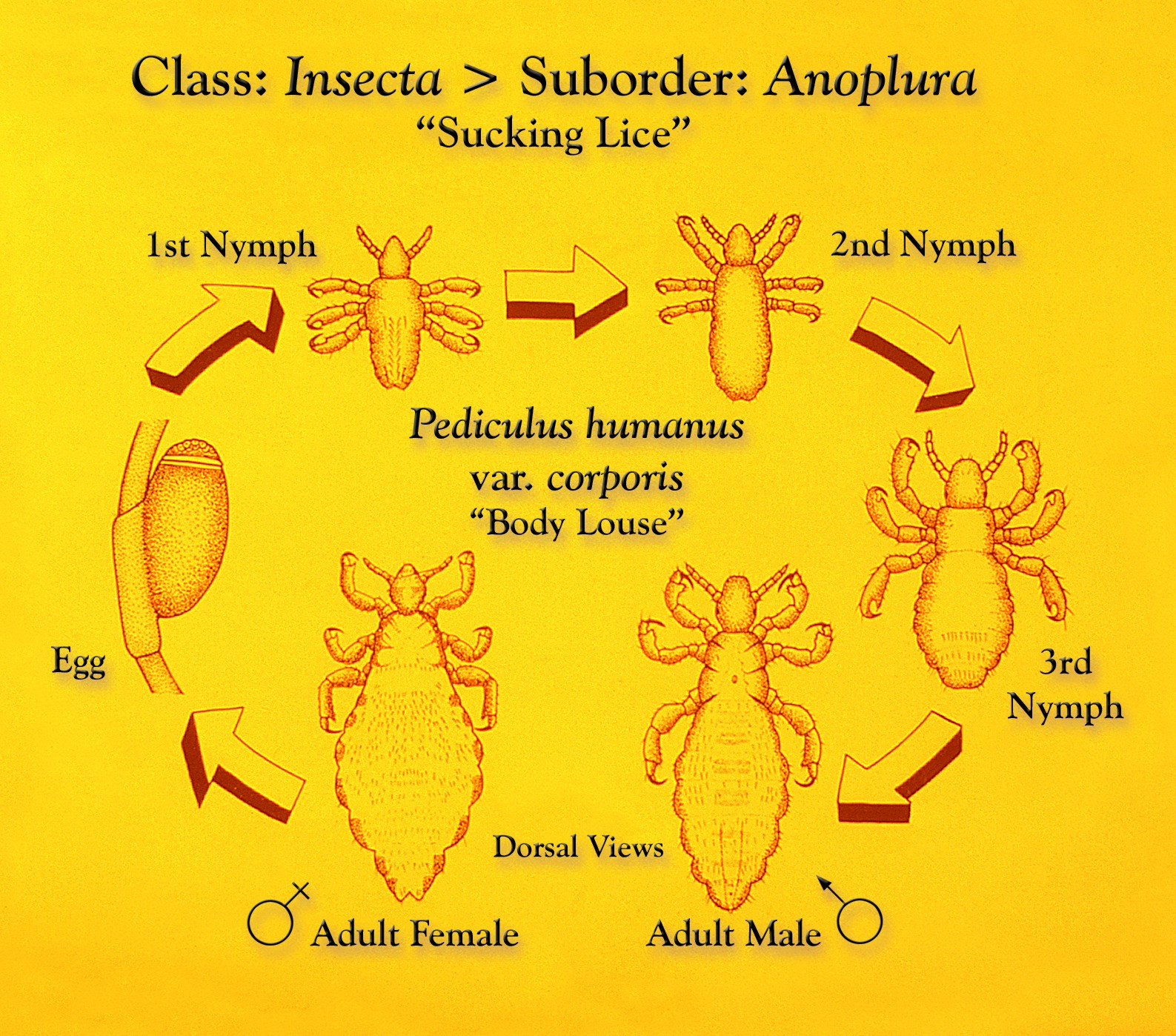 This illustration depicts the life cycle of a “sucking louse”, Pediculus humanus var. corporis, and the morphologic changes that take place at each successive developmental plateau reached. All developmental stages of the louse’s life cycle are passed while it resides as an ectoparasite on its mammalian host. The stages include the egg, the first nymph, second nymph, and third nymph, and the adult male and female.